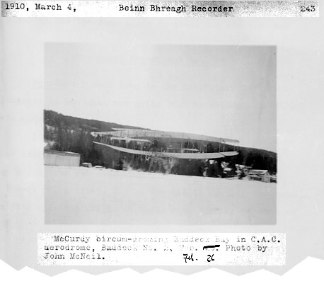 The Baddeck No. 2 above the Baddeck Bay on February 26, 1910.